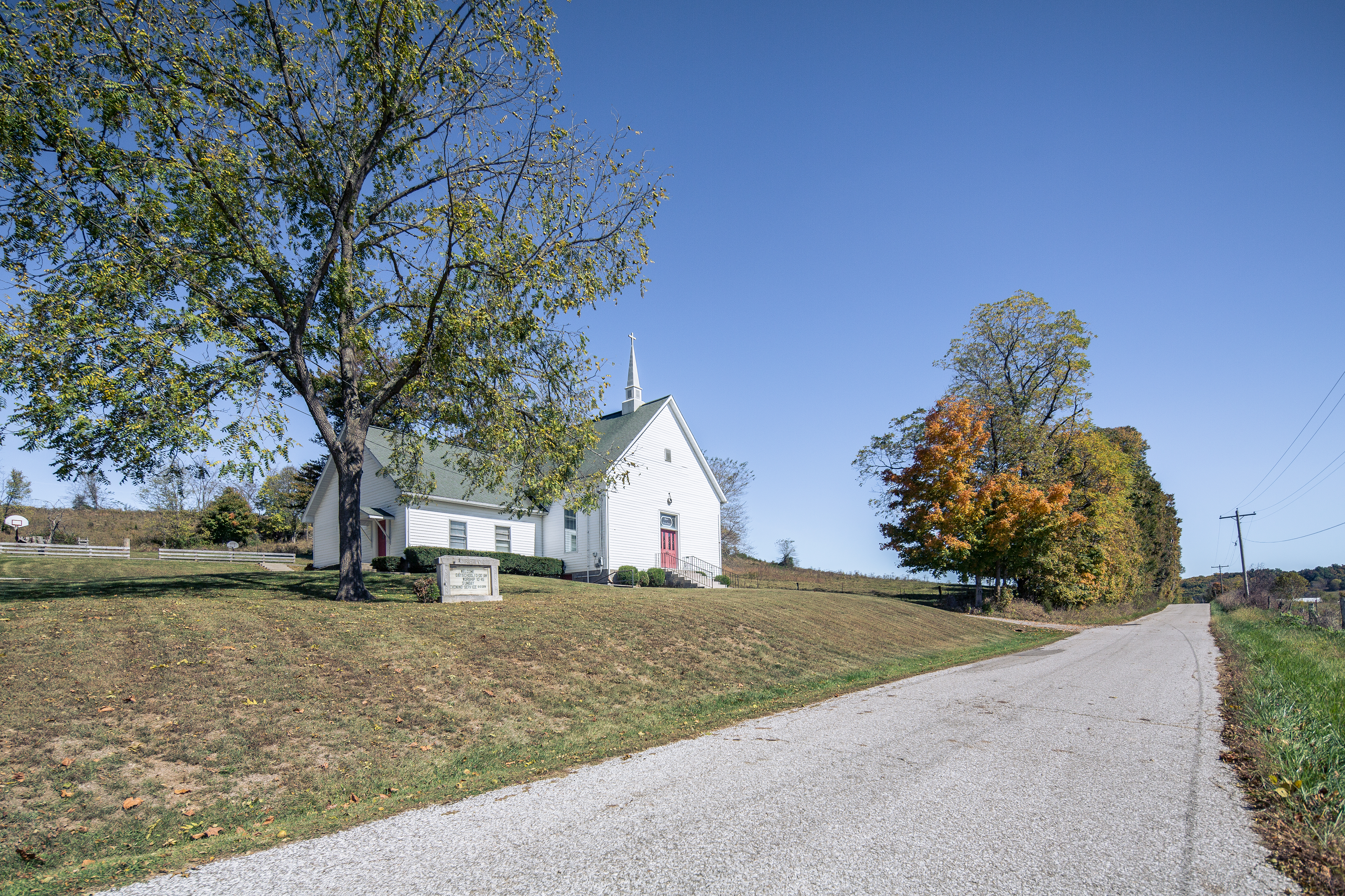 Photo from Small Town Indiana photo survey.